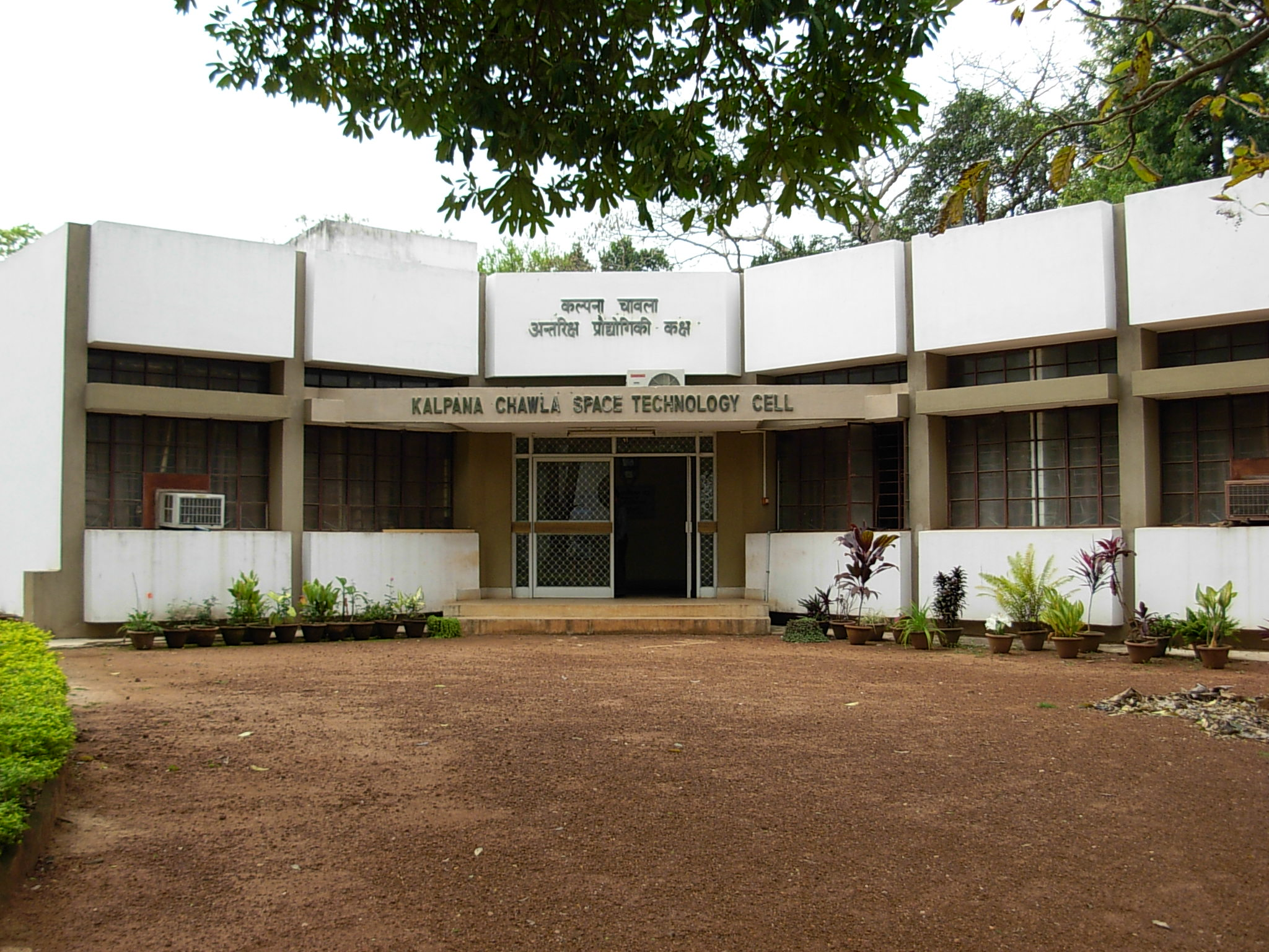 The Space Technology Cell dedicated to Indian astronaut Kalpana Chawla, who was killed when Space Shuttle Columbia met with an accident